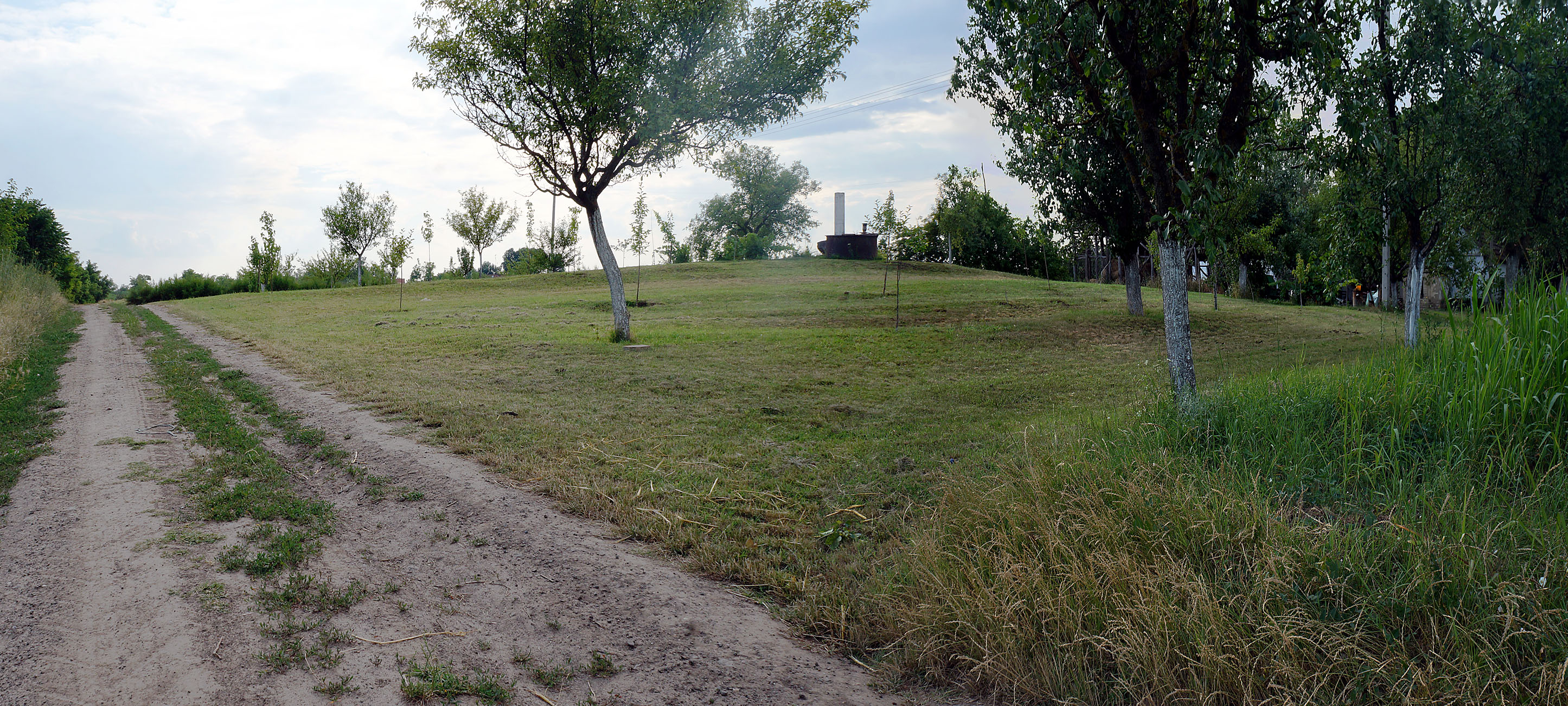 Pivar kurgan, near Tornjoš in Serbia. Code: BAC381